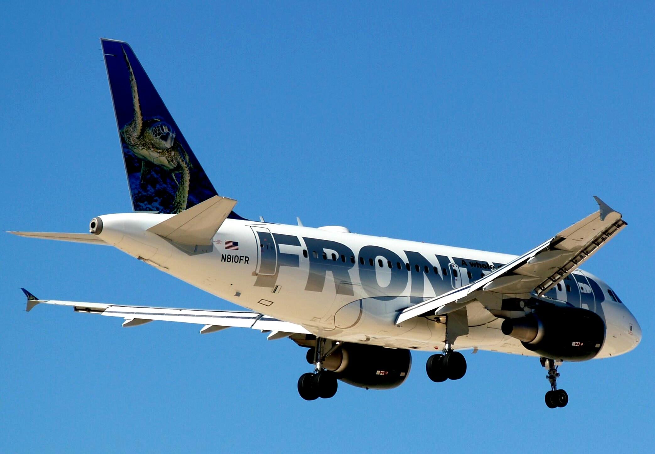 Frontier Airlines Airbus A318-111 N810FR.